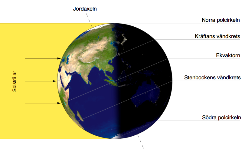 swedish translation of Image:Earth-lighting-summer-solstice EN.png